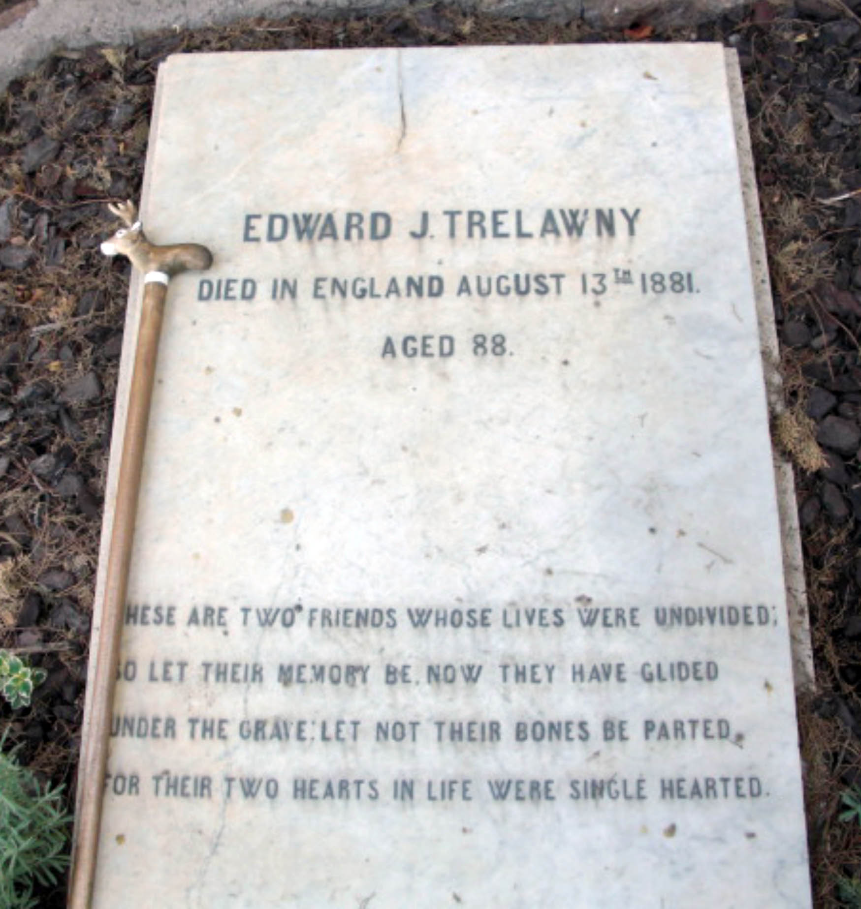 Photograph of Edward Trelawny's Grave.